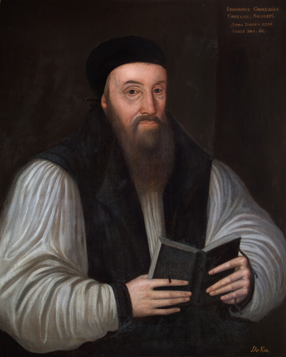 Edmund Grindal (1519-1583), Archbishop of Canterbury. Contemporary (16th Century) portrait.